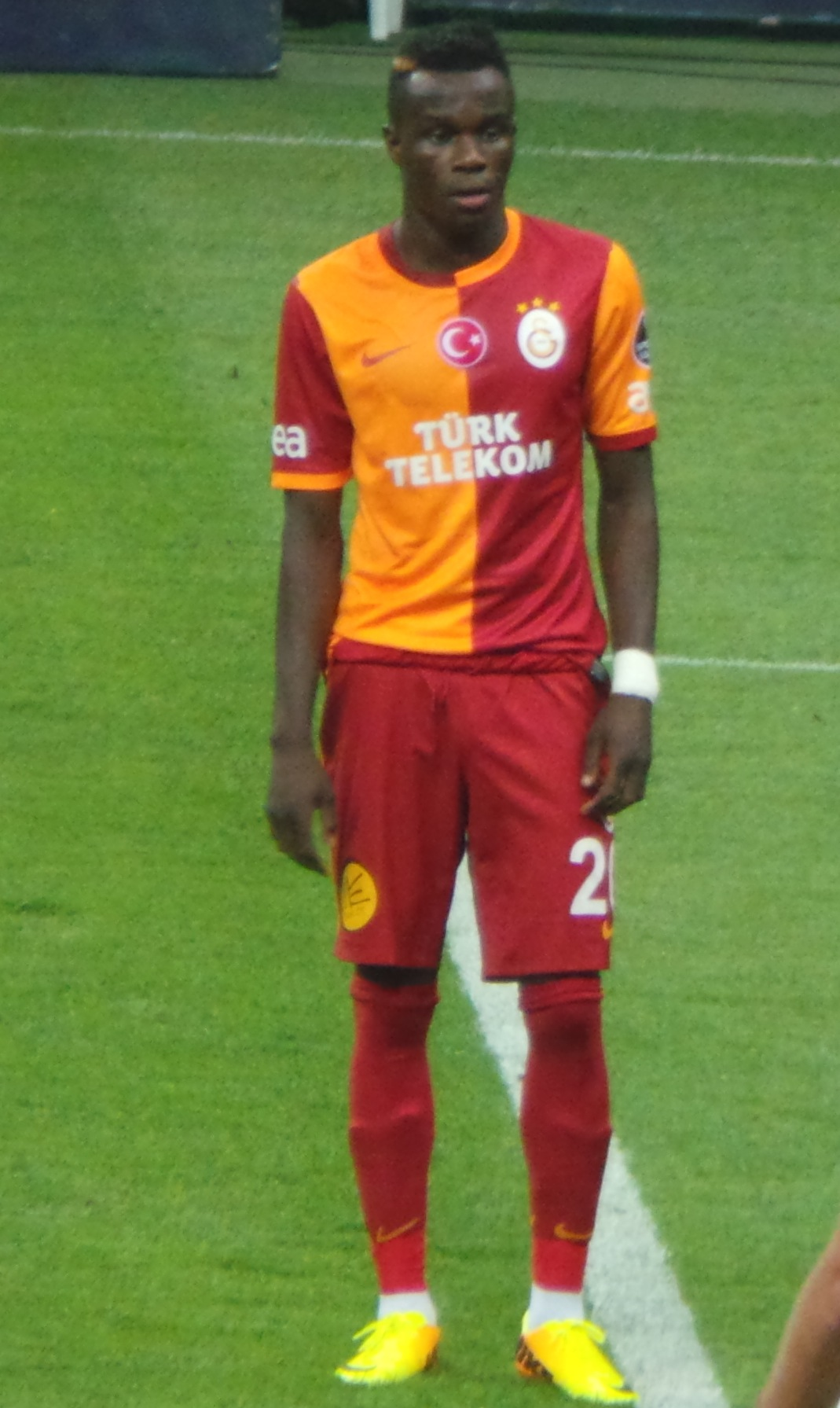 Bruma with Galatasaray.